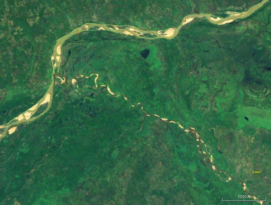 Mouth of Tabara river to the Benue river